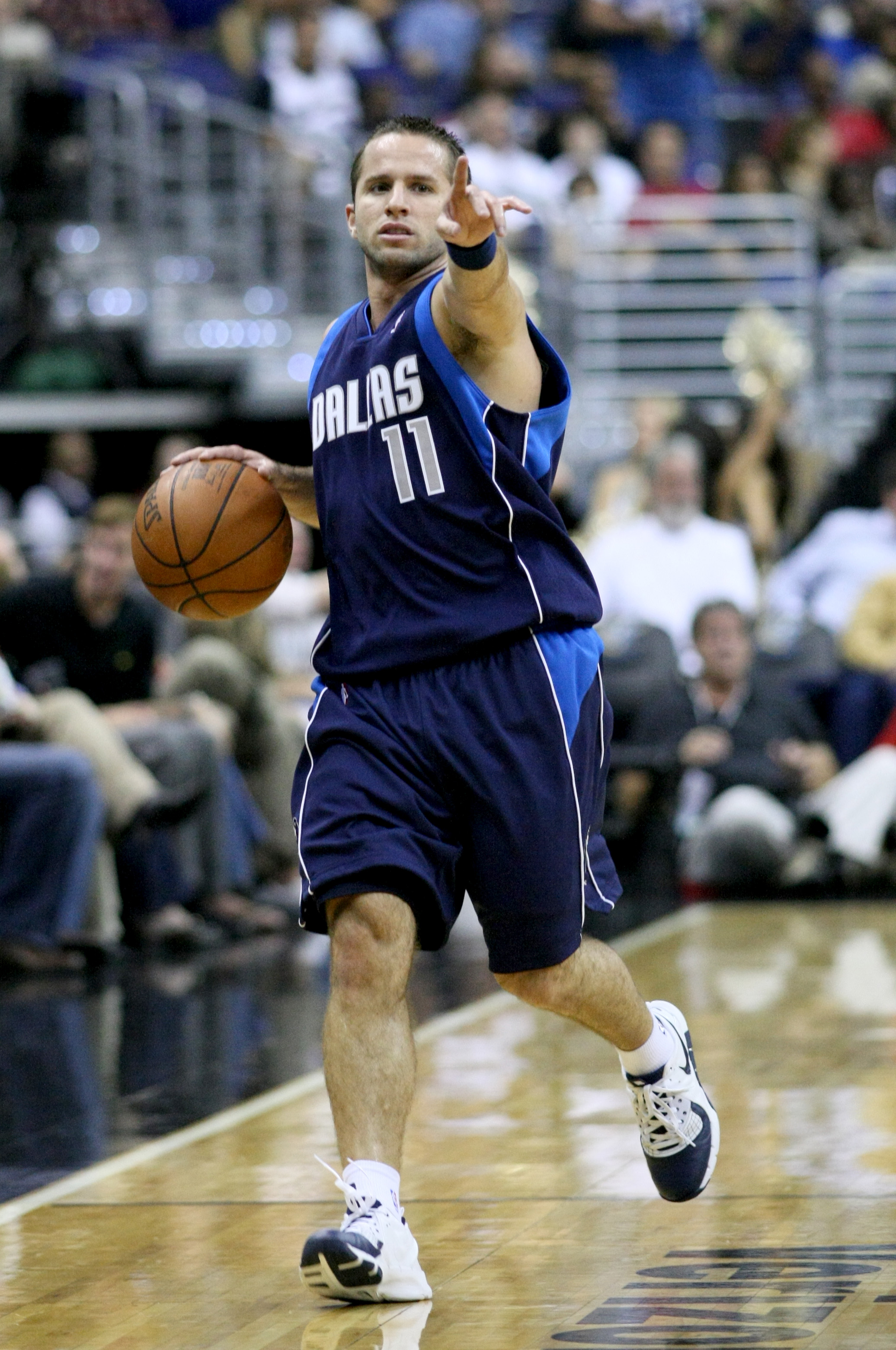 Jose Juan Barea playing with the Dallas Mavericks